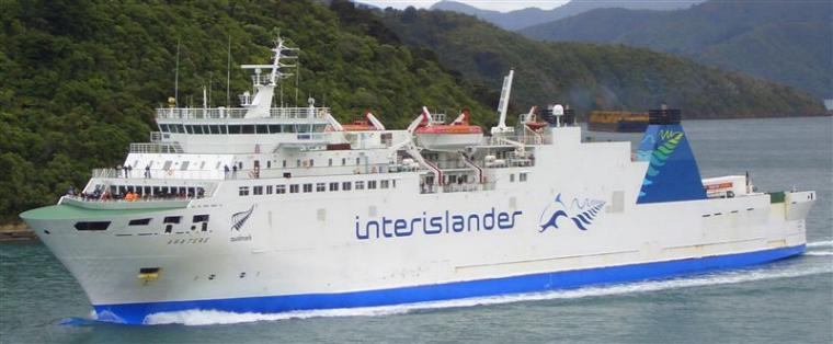 Aratere Interislander Ferry